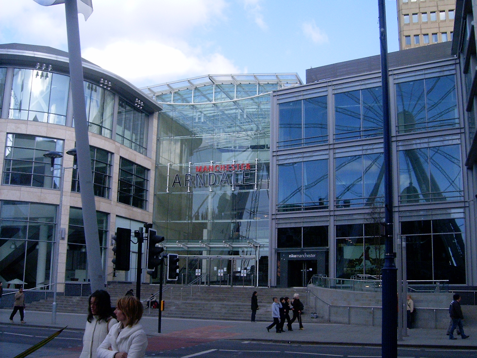 (Original text: Manchester Arndale Exchange Square Entrance)